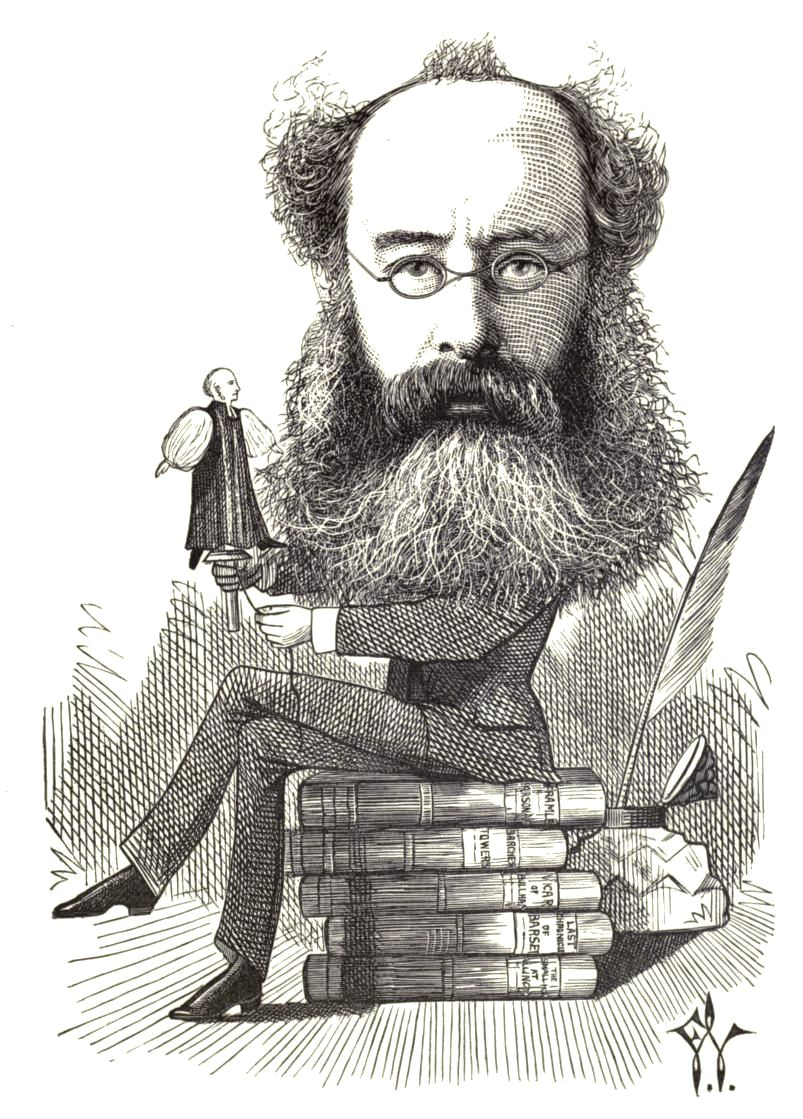 Anthony Trollope. To parsons gave up, what was meant for mankind. from Cartoon portraits and biographical sketches of men of the day